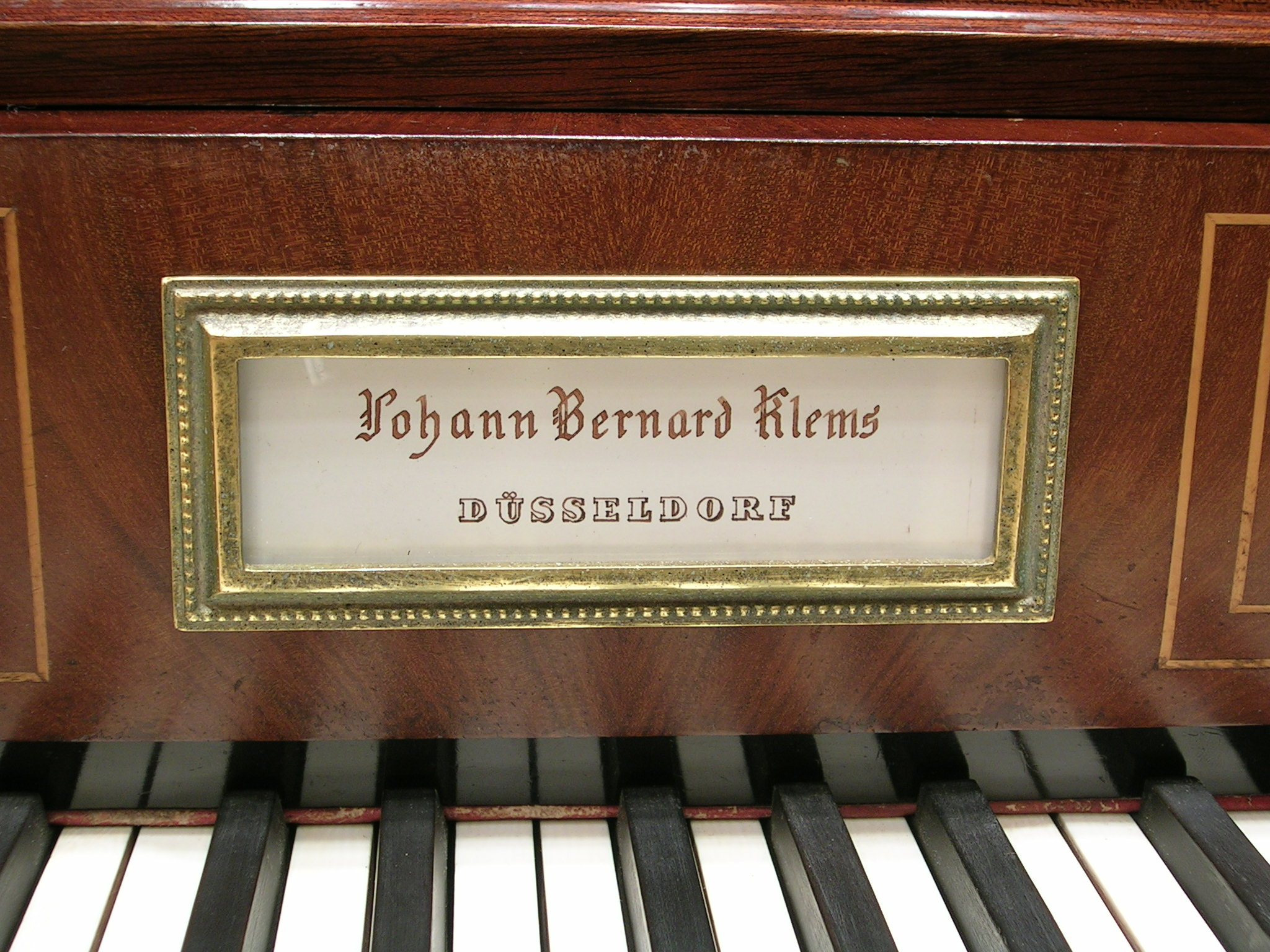 nameplate for a Klems-square piano, around 1850 (Heinrich-Heine-Institut Düsseldorf)